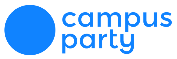 Campus Party new logo 2018